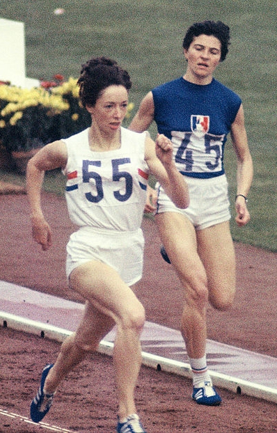 Ann Packer and Maryvonne Dupureur at the 1964 Olympics